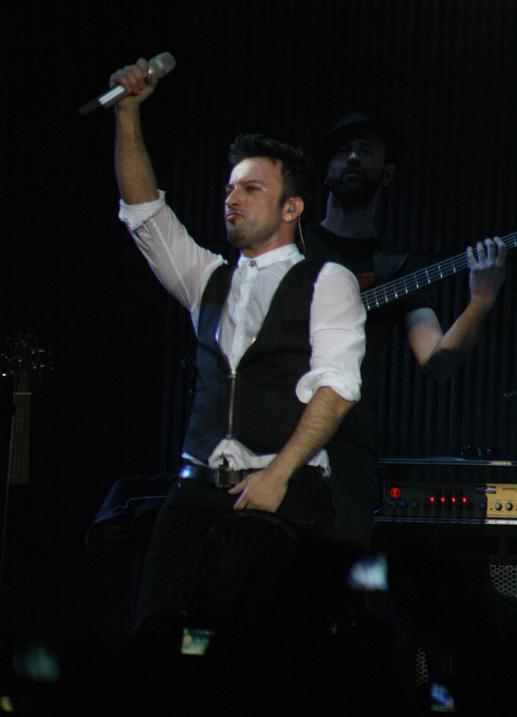 Turkish singer Tarkan.